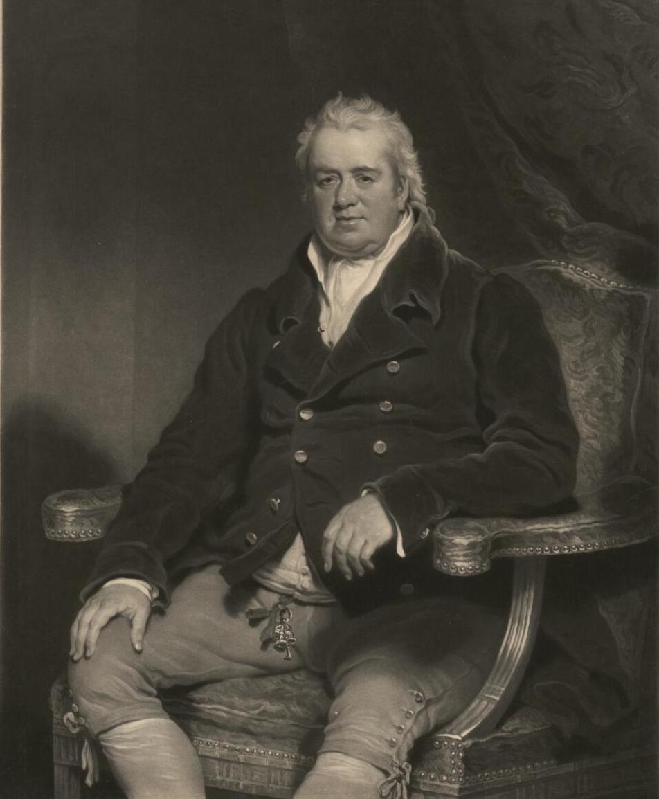 A portrait from the Welsh Portrait Collection at the National Library of Wales. Depicted person: Sir Robert Vaughan, 2nd Baronet – Welsh landowner and MP